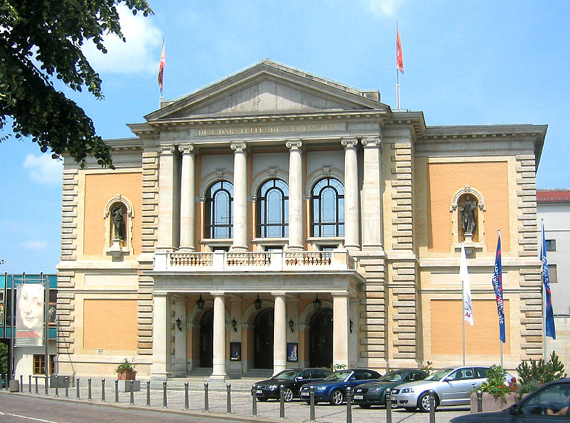 Halle (Saale), Germany: Opernhaus